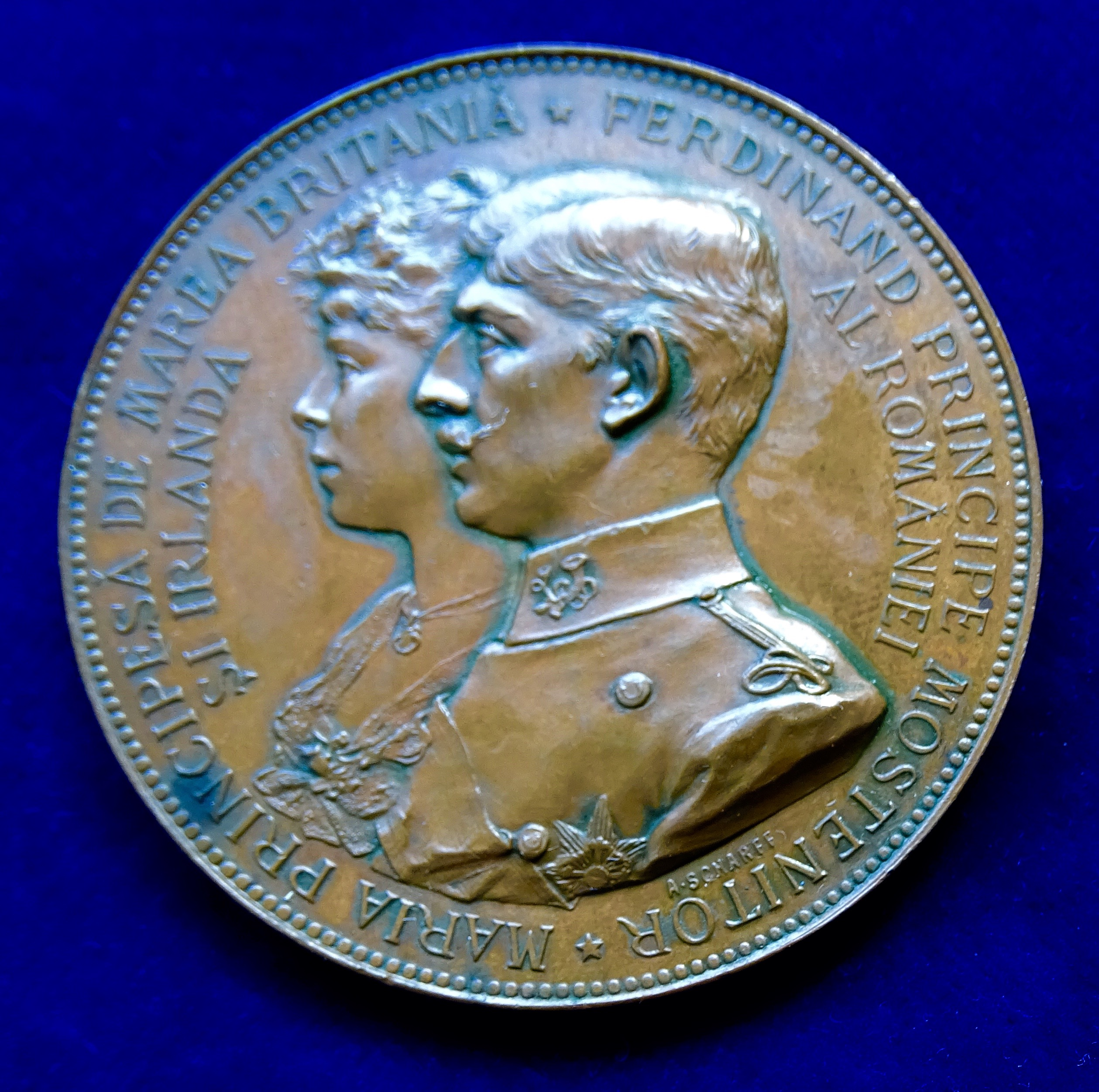 This wedding took place in Sigmaringen, Württemberg, Germany, the place of birth of Ferdinand I. Bronze medallion d. = 50 mm. Ferdinand I (Ferdinand Viktor Albert Meinrad), King of Romania, 1914- 1927 and Maria, Alexandra Victoria, Princess Marie of Edinburgh, 1875 Eastwell Park, Kent, England - Pelișor Castle, Sinaia, Romania. Queen Victoria of the United Kingdom of Great Britain and Ireland was her grandmother. Conjoined busts l., 2 lines around: "* FERDINAND PRICIPE MOSTENITOR * AL ROMANIEI * MARIA PRICIPESA DE MAREA BRITANIA * SI IRLANDA"/ Cupid crowning the royal coat of arms of Romania and Great Britain. On ribbon below: "29 DECEMBRE 1892 10 JANUARIE 1983". Wurzbach 2074. Eimer 1779. Medallist: A. (Anton) Scharff, 1845 Wien - 1903 Brünn, Austria Condition: EXTREMELY FINE, little tarnish.